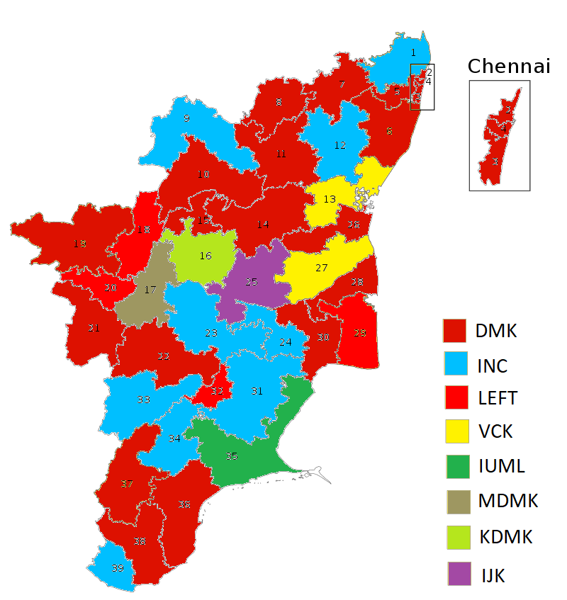 Seat Sharing arrangement of UPA in Tamil Nadu in 2019 Election